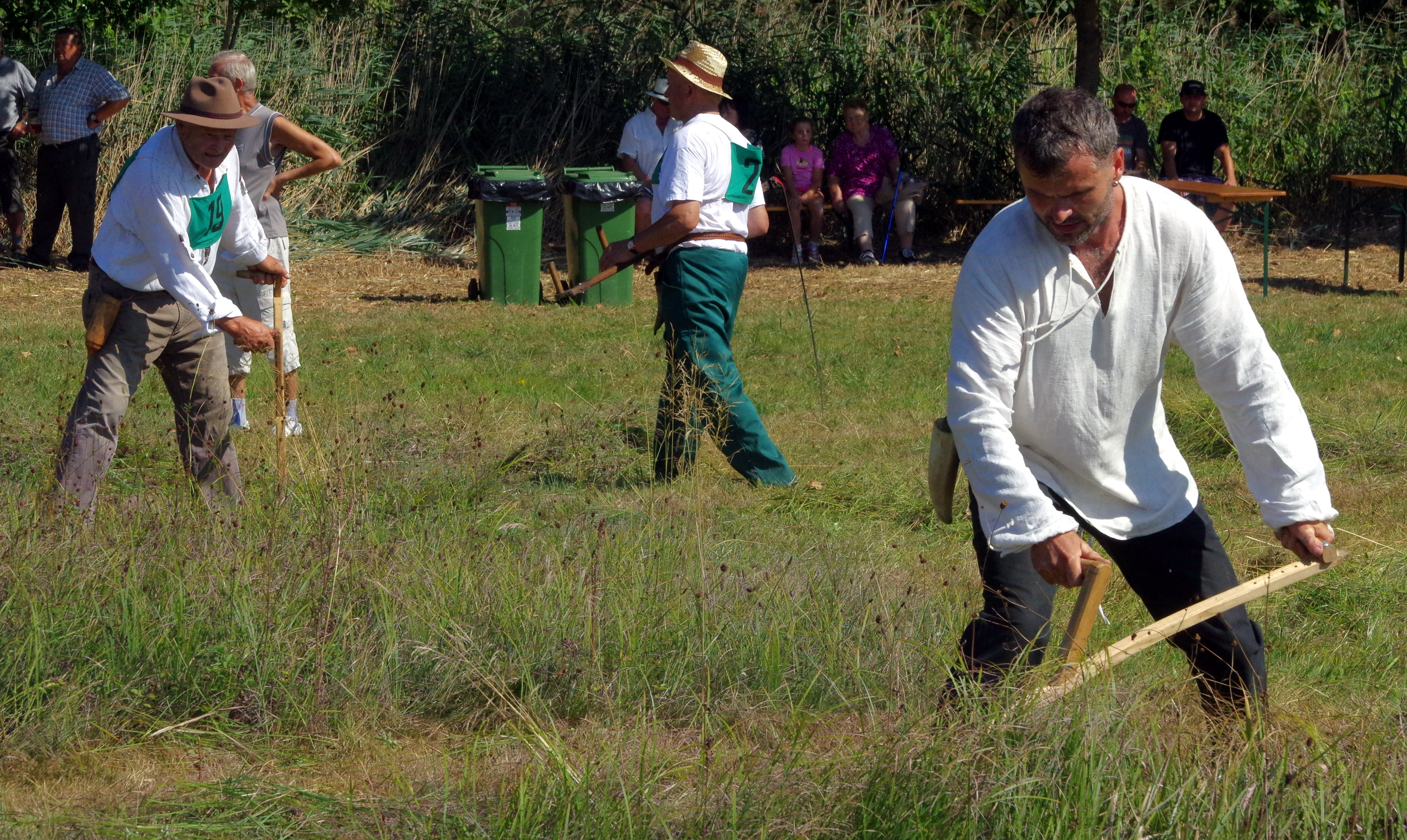 29.8.15 Putim